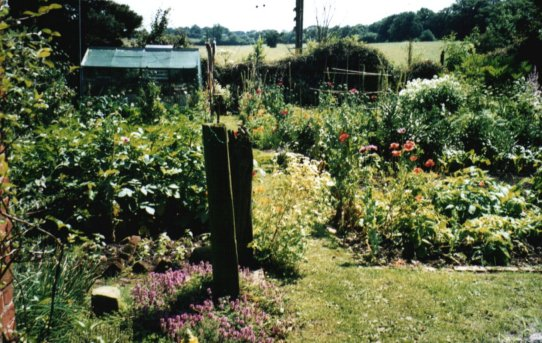 Pic of Dial House garden by Graham Burnett